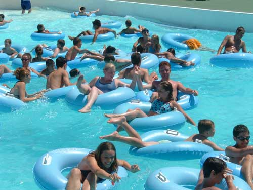 Casual lingering in a swimming pool.